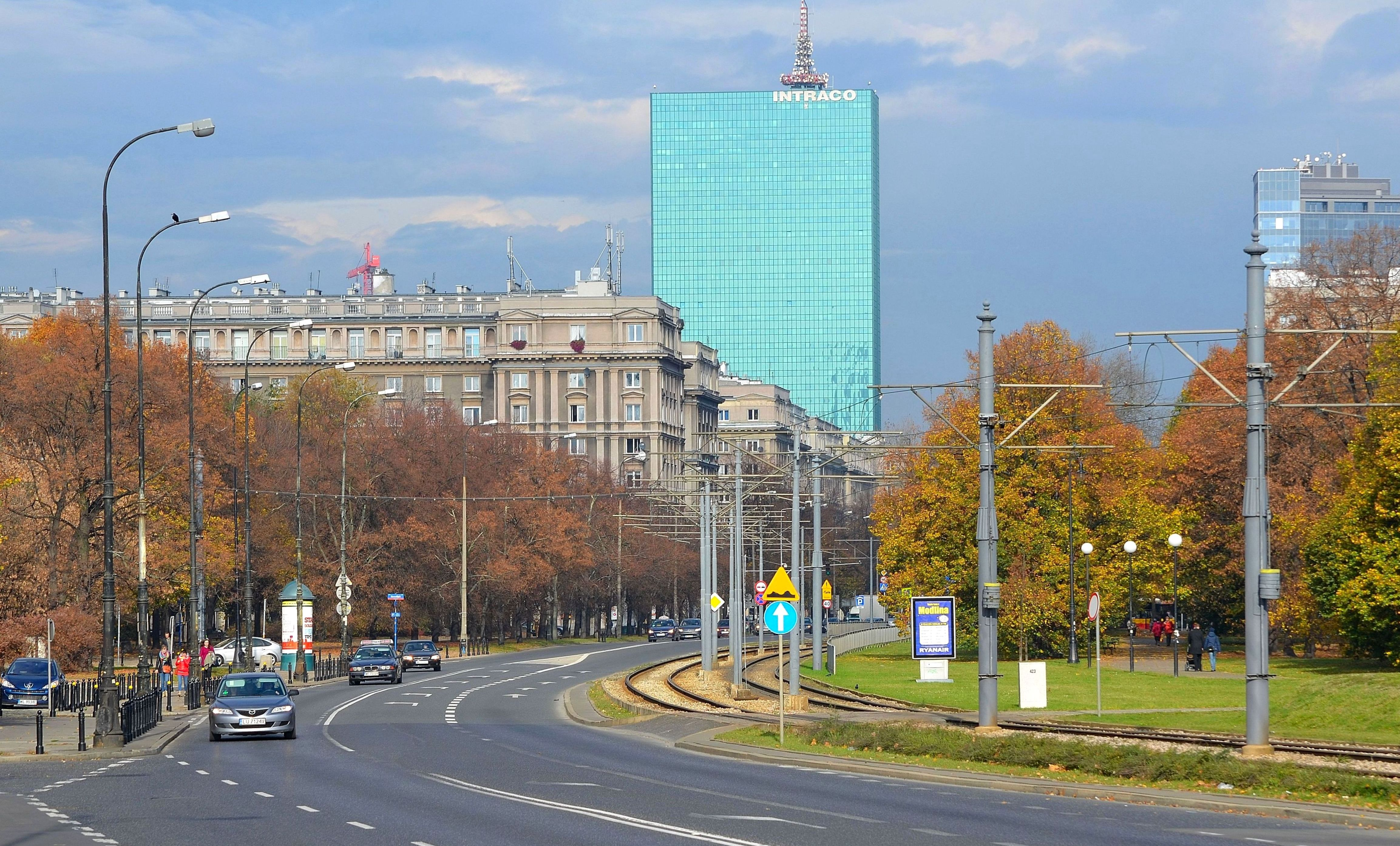 General Władysław Anders Street in Warsaw